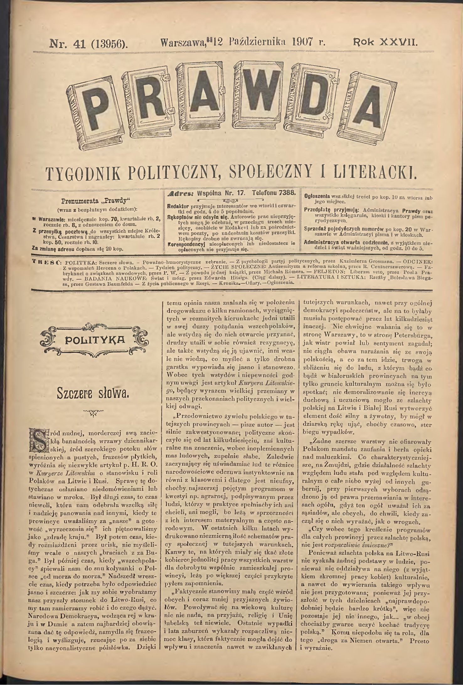 newspaper "Prawda" #41, 1907 AD (Warszawa city, Russian empire), page 1